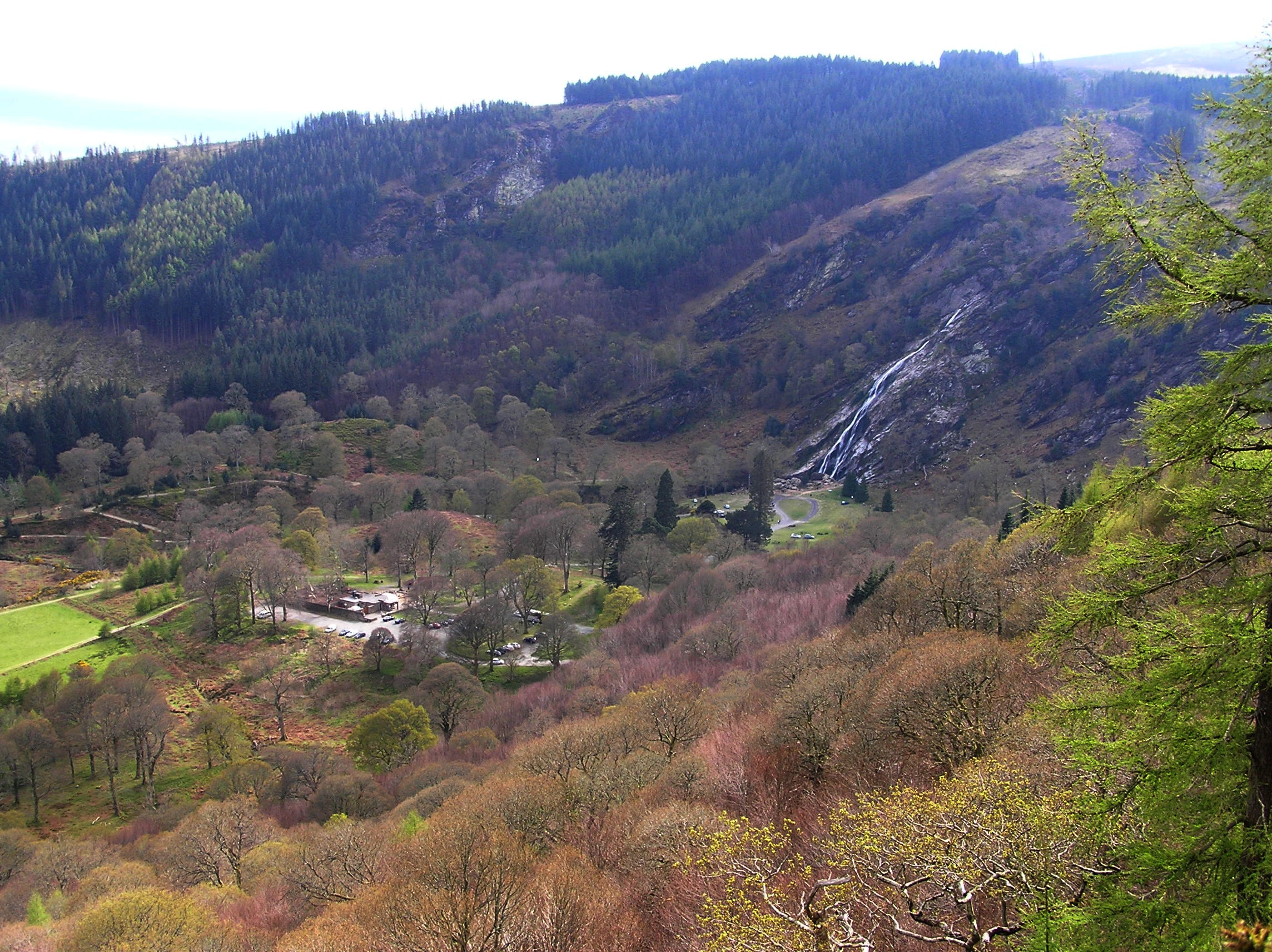 A view over the Powerscourt waterfall and parking and picnic area from the side of Maulin mountain. The valley floor and side of Maulin are covered in deciduous forest. Co Wicklow, Ireland. April 2012